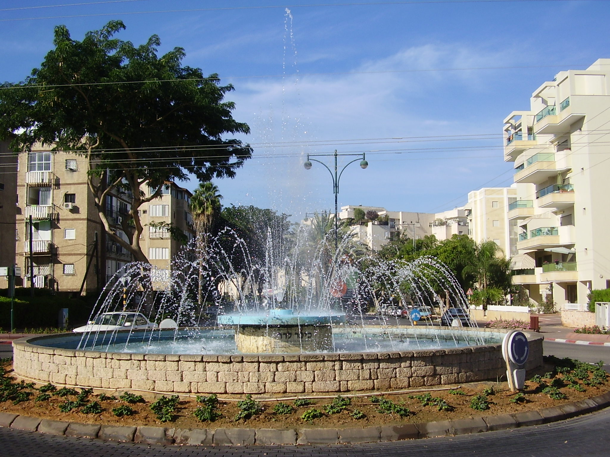 Lerer Square in Ness Ziona